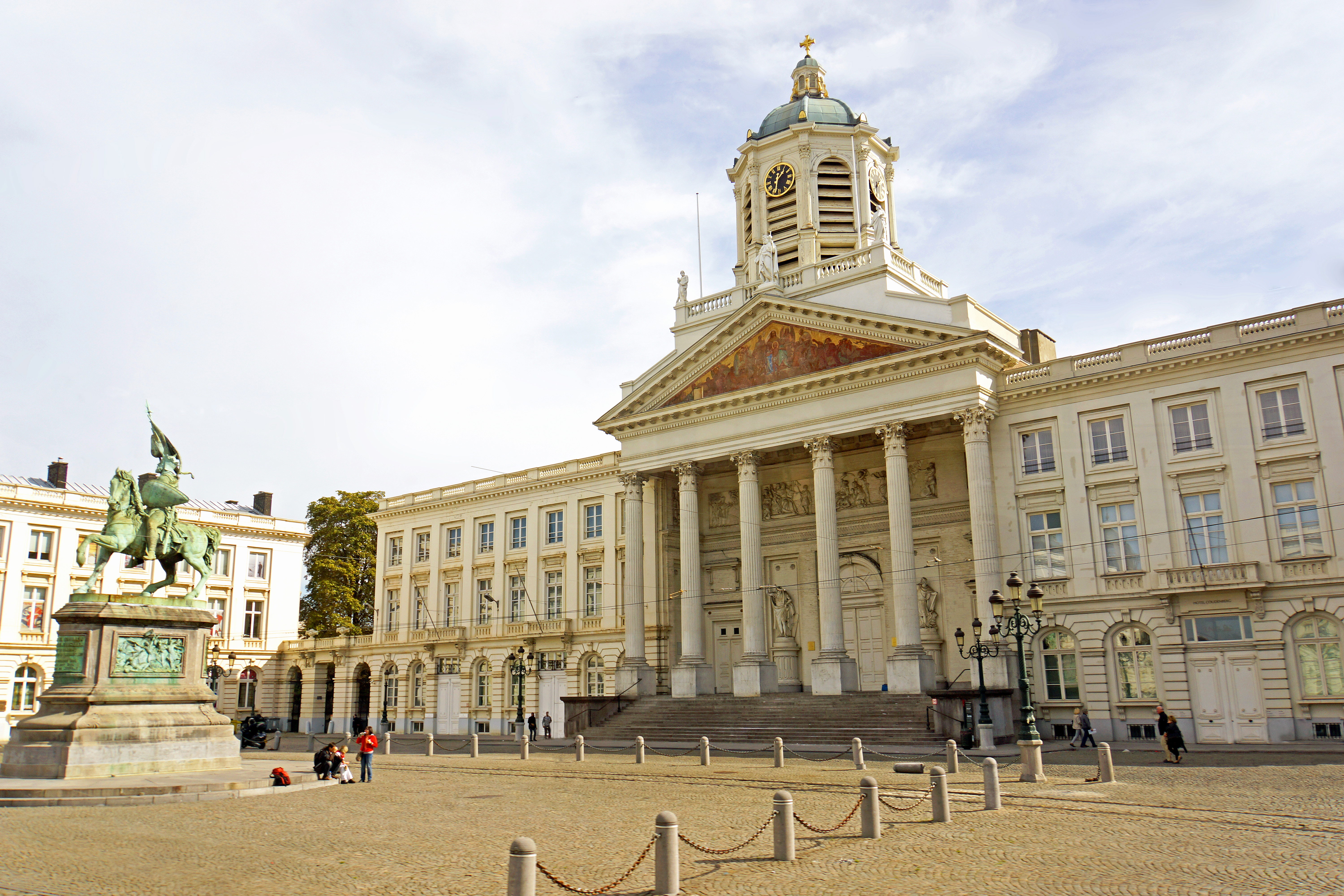 PLEASE, NO invitations or self promotions, THEY WILL BE DELETED. My photos are FREE to use, just give me credit and it would be nice if you let me know, thanks. Church of St. James on Royal Square was built on the site of the former Gothic convent church of the Coudenberg Abbey, demolished by Charles of Lorraine. The front façade of the church, erected between 1776 and 1787, is formed by the triangular pediment and the six Corinthian columns like a ancient Greek-Roman temple. During the French revolution church was transformed into a "Temple of Reason", and later a "Temple of Law". In 1802, the church was returned to the Roman Catholic religion. On July 21st, 1831, Leopold I, the first Belgian king, took the constitutional oath on a decorated stage in front of the church. Church of St. James is also the official church of the Belgian armed forces. Statue in front of St. James church is Godfrey of Bouillon (c. 1060 – 18 July 1100). He was a medieval Frankish knight who was one of the leaders of the First Crusade from 1096 until his death. He was the Lord of Bouillon from 1076 and the Duke of Lower Lorraine from 1087. After the successful siege of Jerusalem in 1099, Godfrey became the first ruler of the Kingdom of Jerusalem, although he refused the title "King"; as he believed that the true King of Jerusalem was Christ.